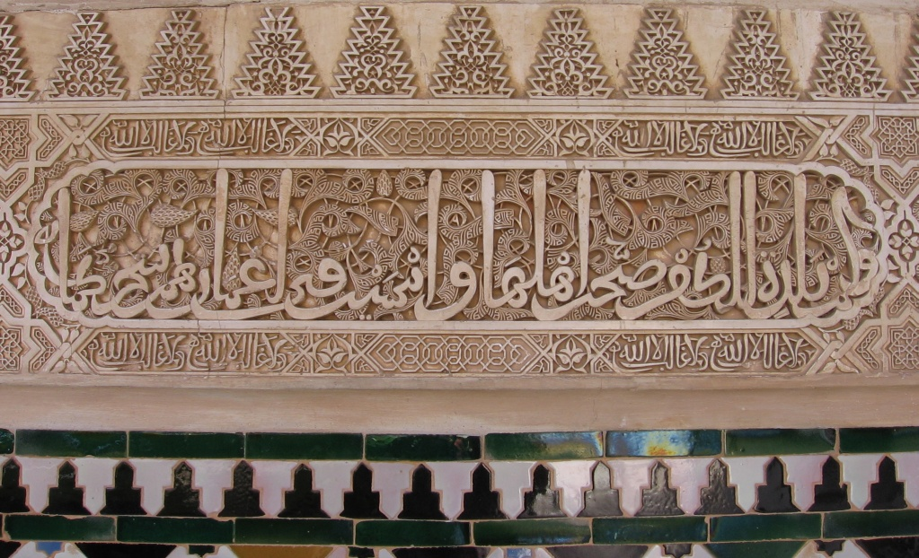 Granada, Spain - islamic ornament in Alhambra